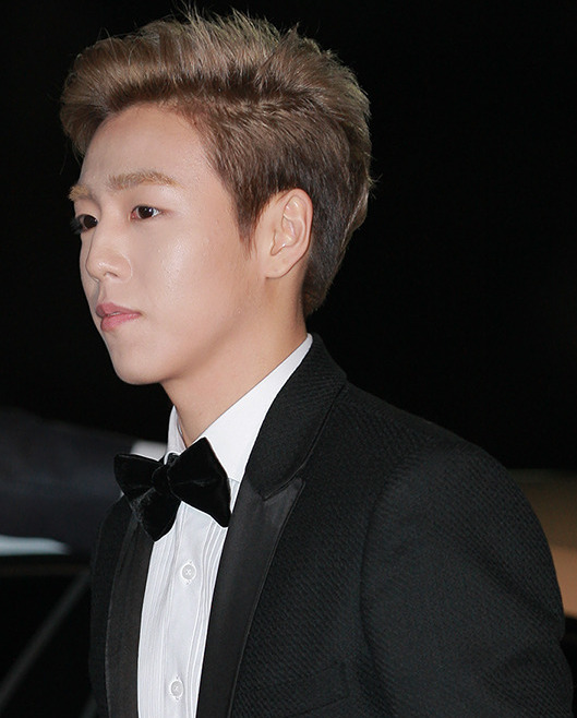 Lee Hyun-woo at the 34th Blue Dragon Film Awards in November 23, 2013.